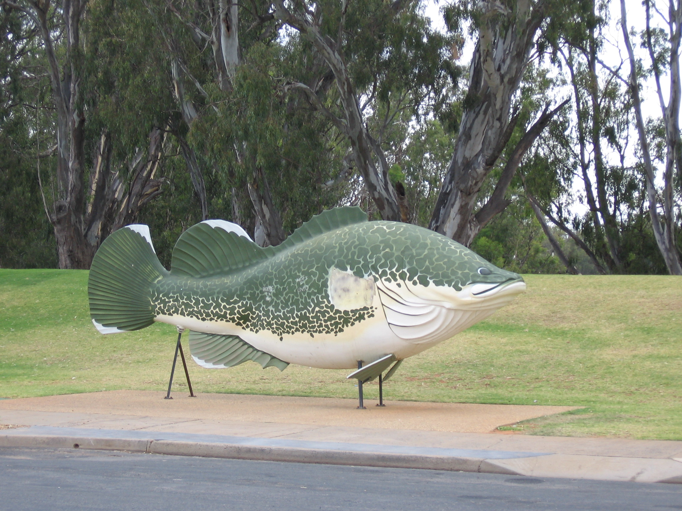 Big Cod at Tocumwal, New South Wales